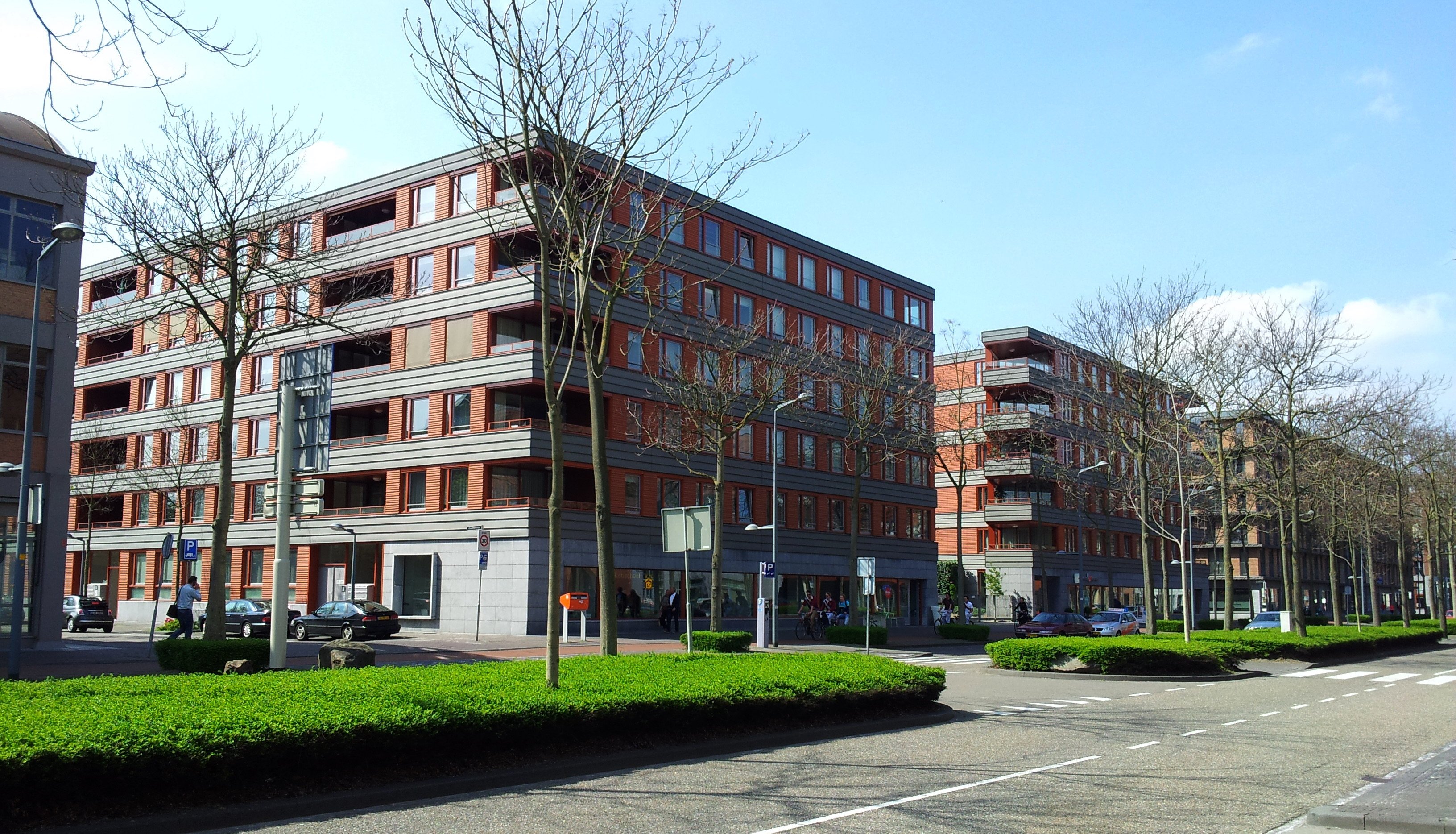 Maastricht, the Netherlands. View of 'Patio Sevilla', designed by Cruz y Ortiz (Seville), one of the appartment buildings on Avenue Céramique, the main avenue in the newly rebuilt Céramique district in Maastricht.